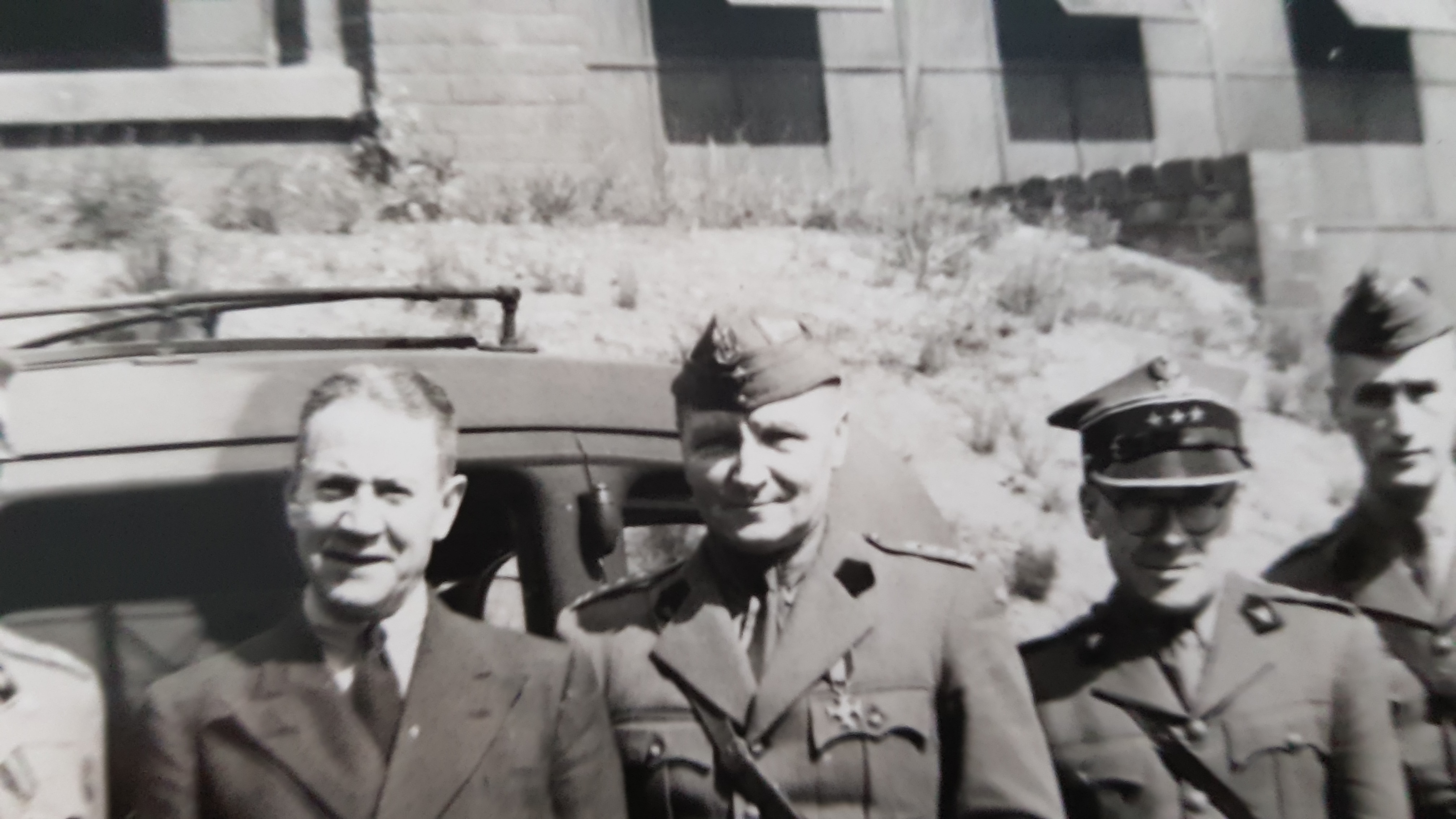 witkowski38